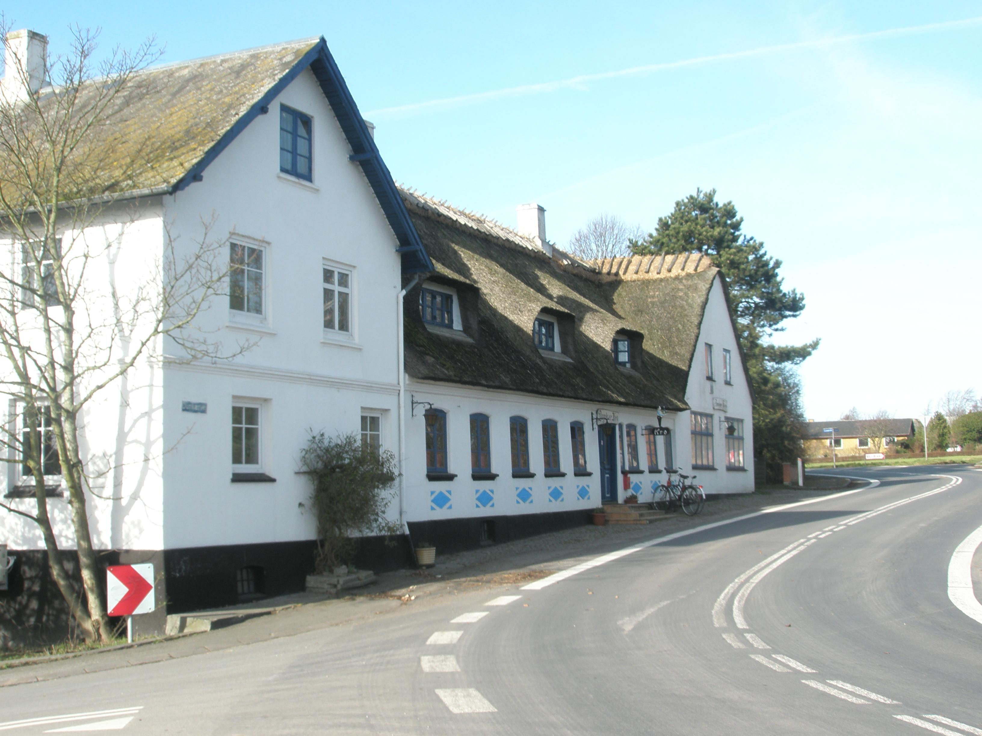 Picture of Dunkær Kro in Denmark